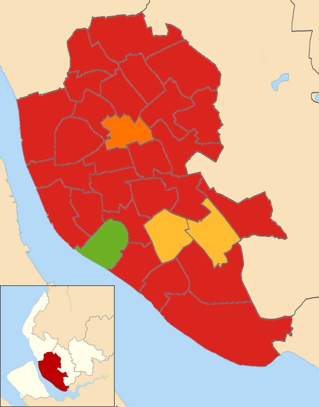 Results of the 2011 local elections in Liverpool Colours: Labour Liberal Democrat Liberal Party Green party of England and Wales